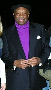 Willie Brown in San Francisco